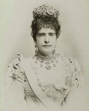 Мария Пиа - Королева Португалии